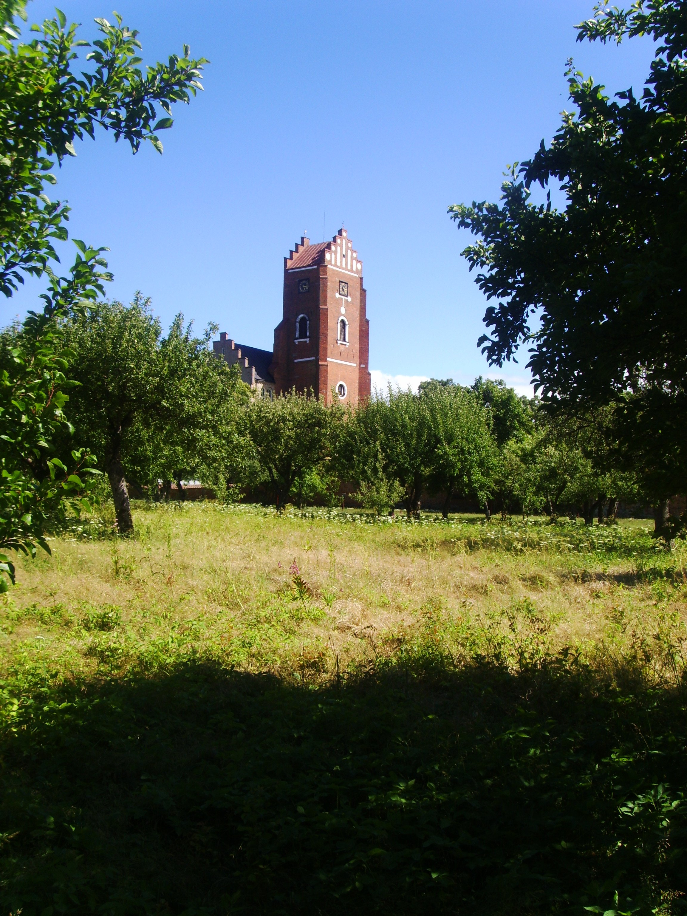 Vadstena